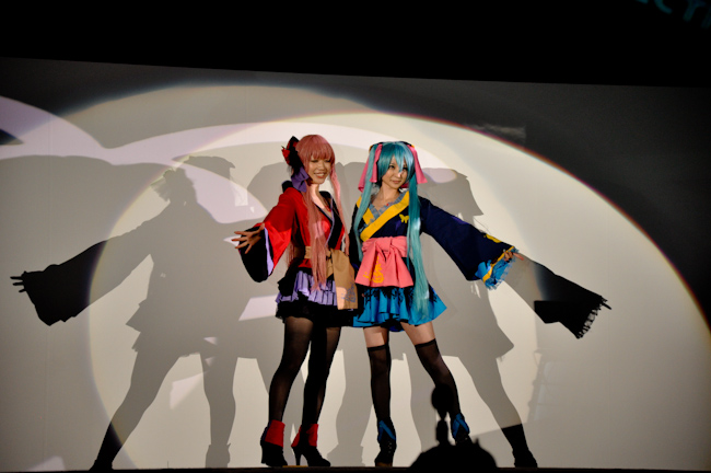 Cosplayers of Megurine Luka and Hatsune Miku at Tokyo Game Show 2011.